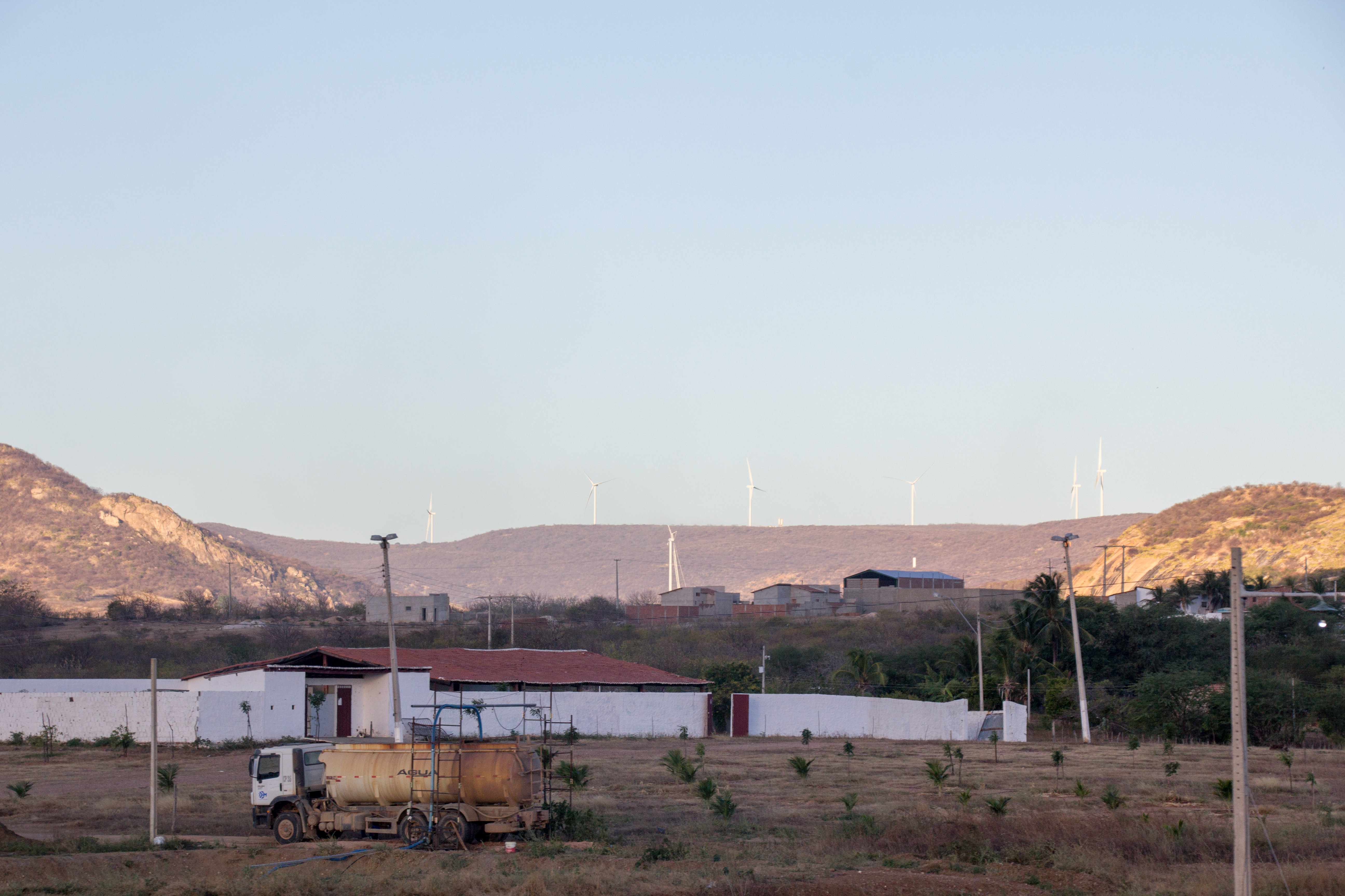 Windmills in the middle of Paraíba, Brazil